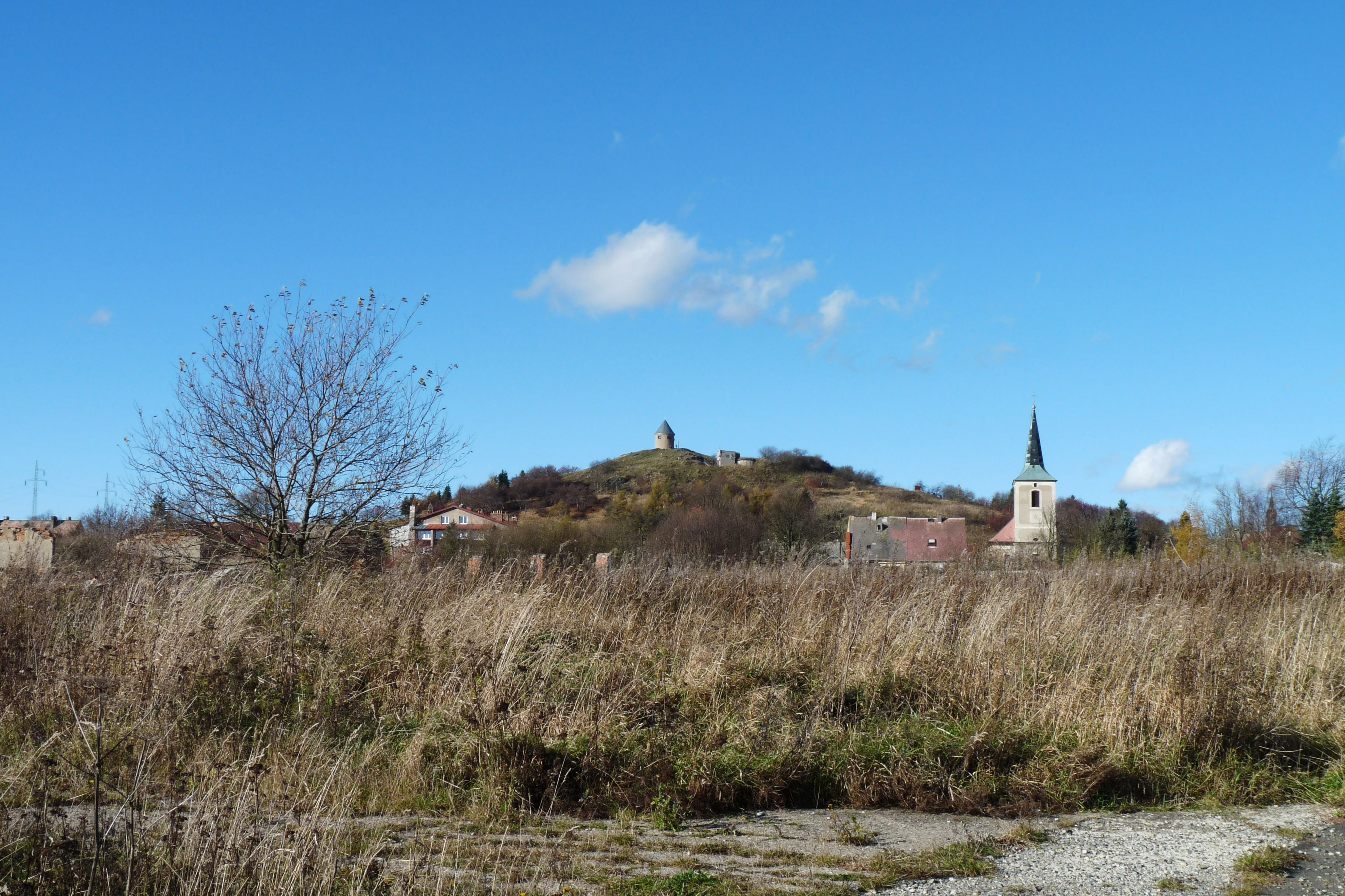 View of the municipality of Měděnec and Mědník Hill in the Chomutov District, Ústí nad Labem Region, Czech Republic.